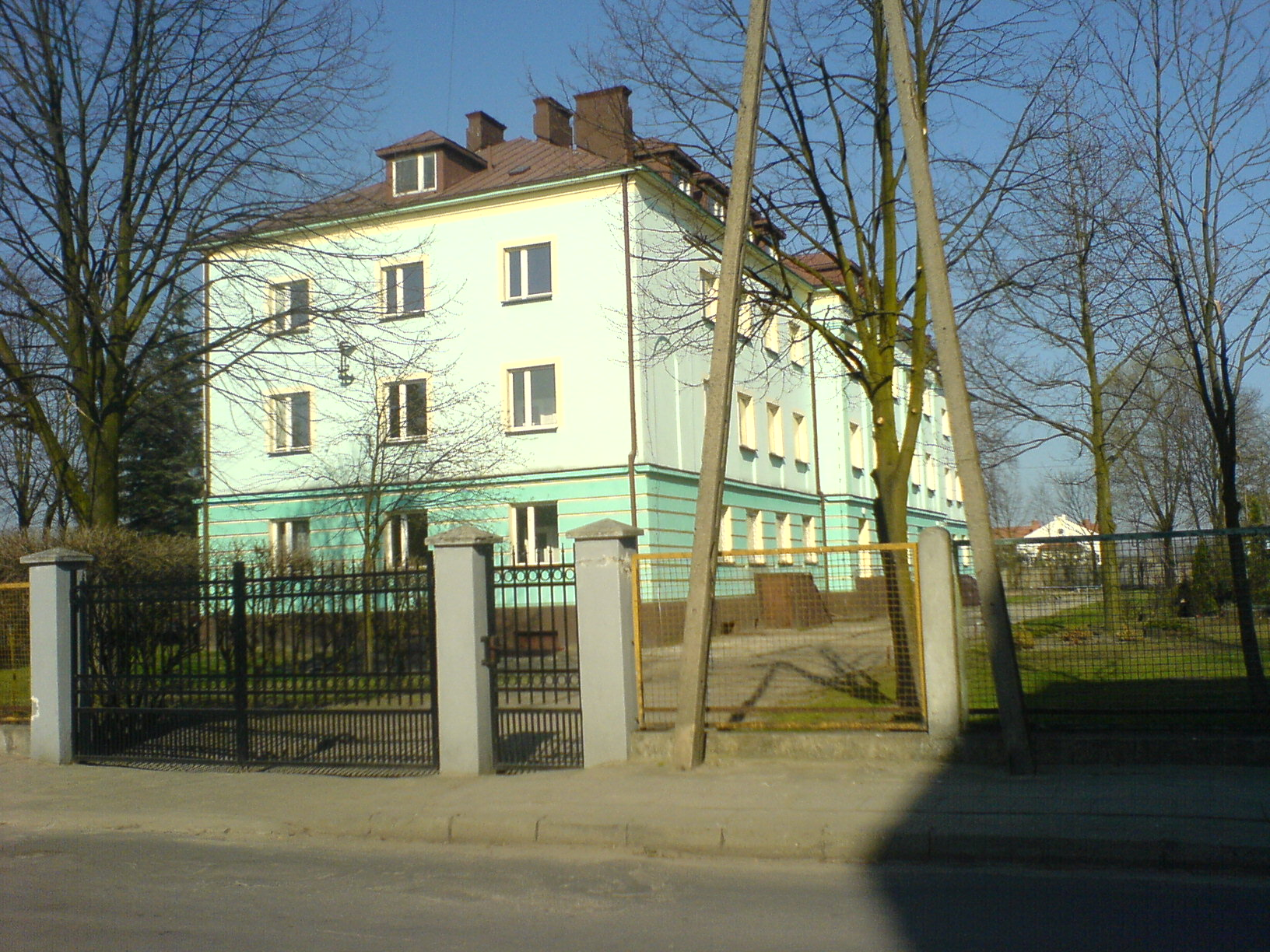 Złoczew (Poland, Łódź Voivodeship, Sieradz County)